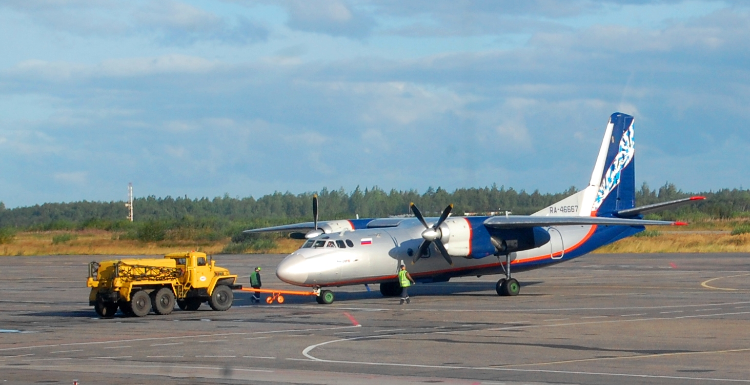 An-24RV (RA-46667) at Talagy airport in Arkhangelsk, Russia